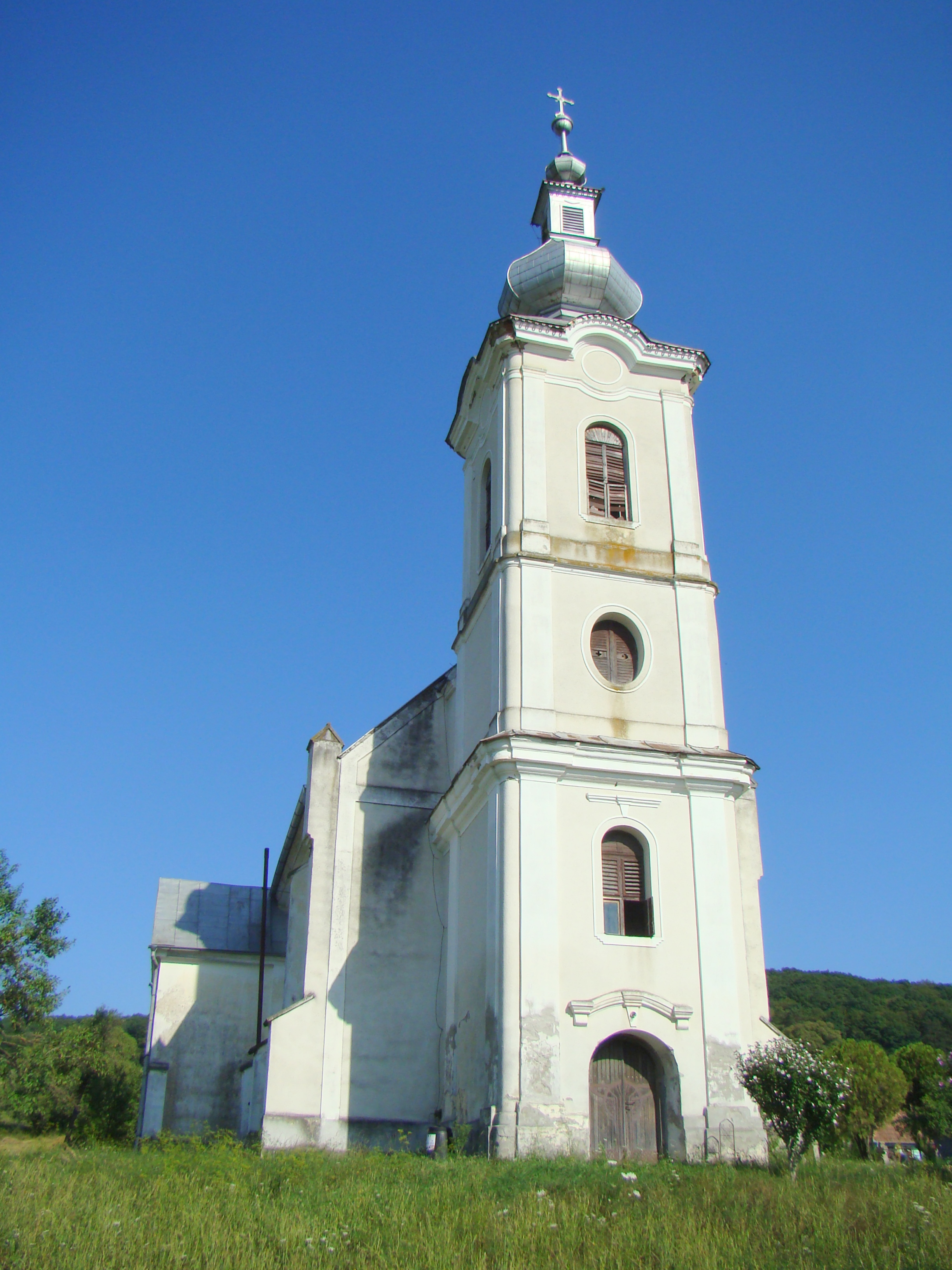 Tower of the Roman Catholic church in Troița, Mureș county, Romania